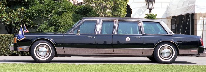 George H.W. Bush 1989 Lincoln presidential limousine